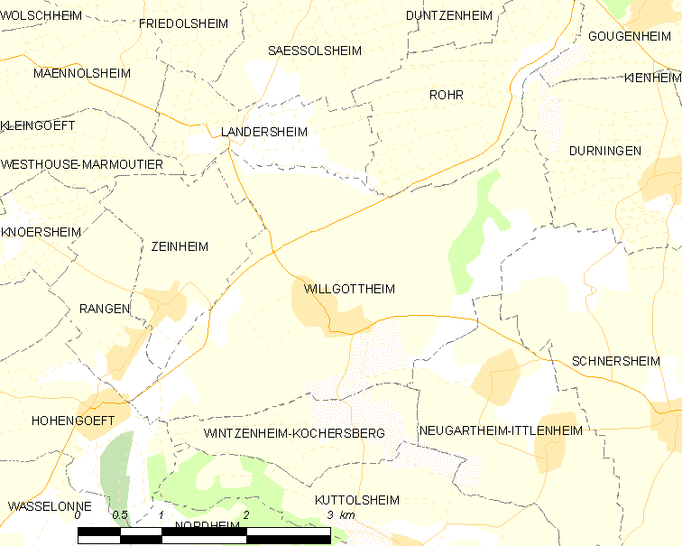 Map of French municipality